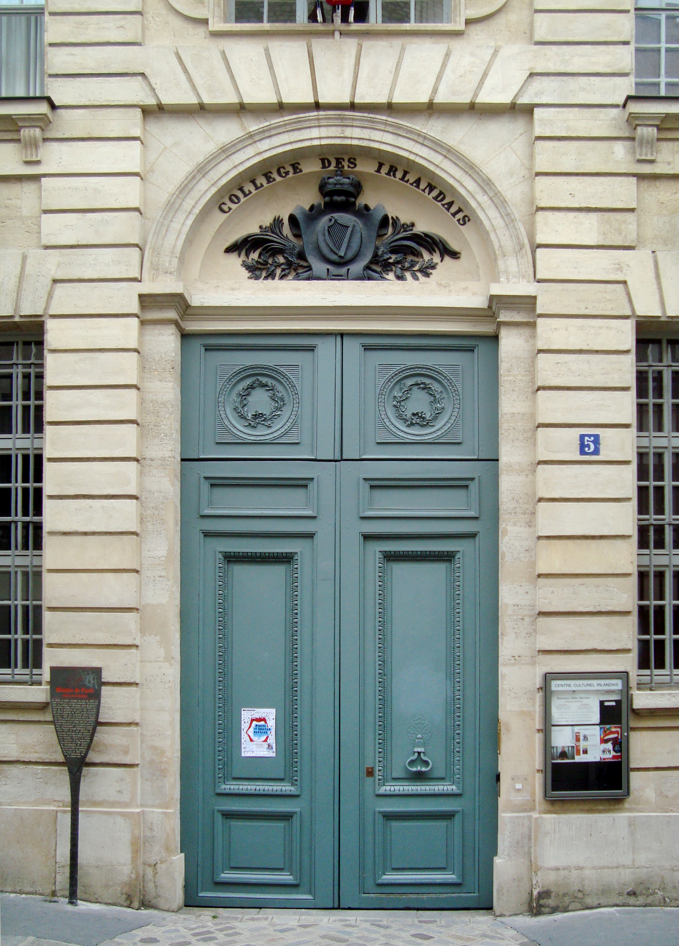 Entrance of the Collège des Irlandais in Paris, 5 rue des Irlandais